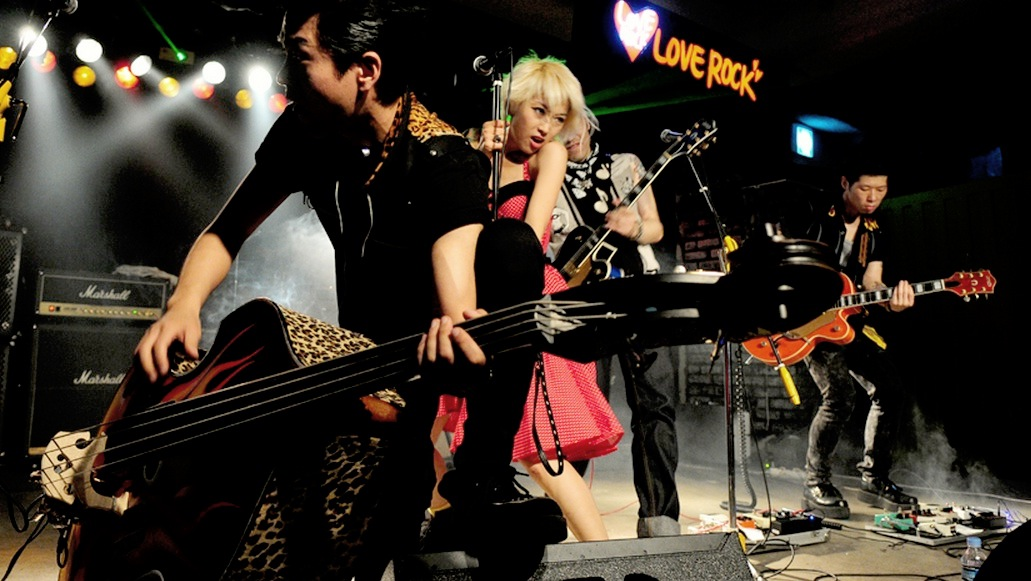 RockTigers during a live show in 2010.